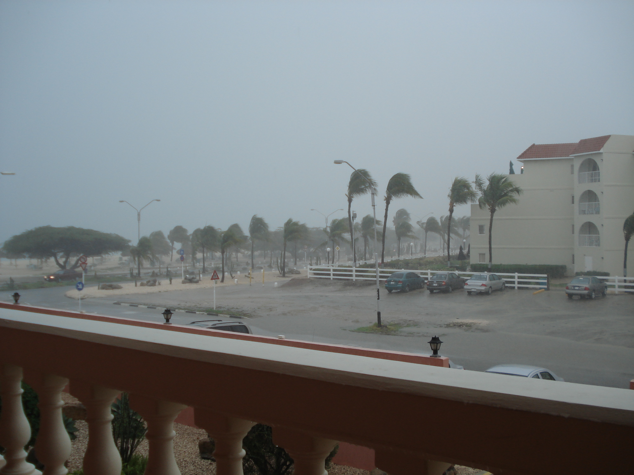 Aruba during the Hurricane Felix